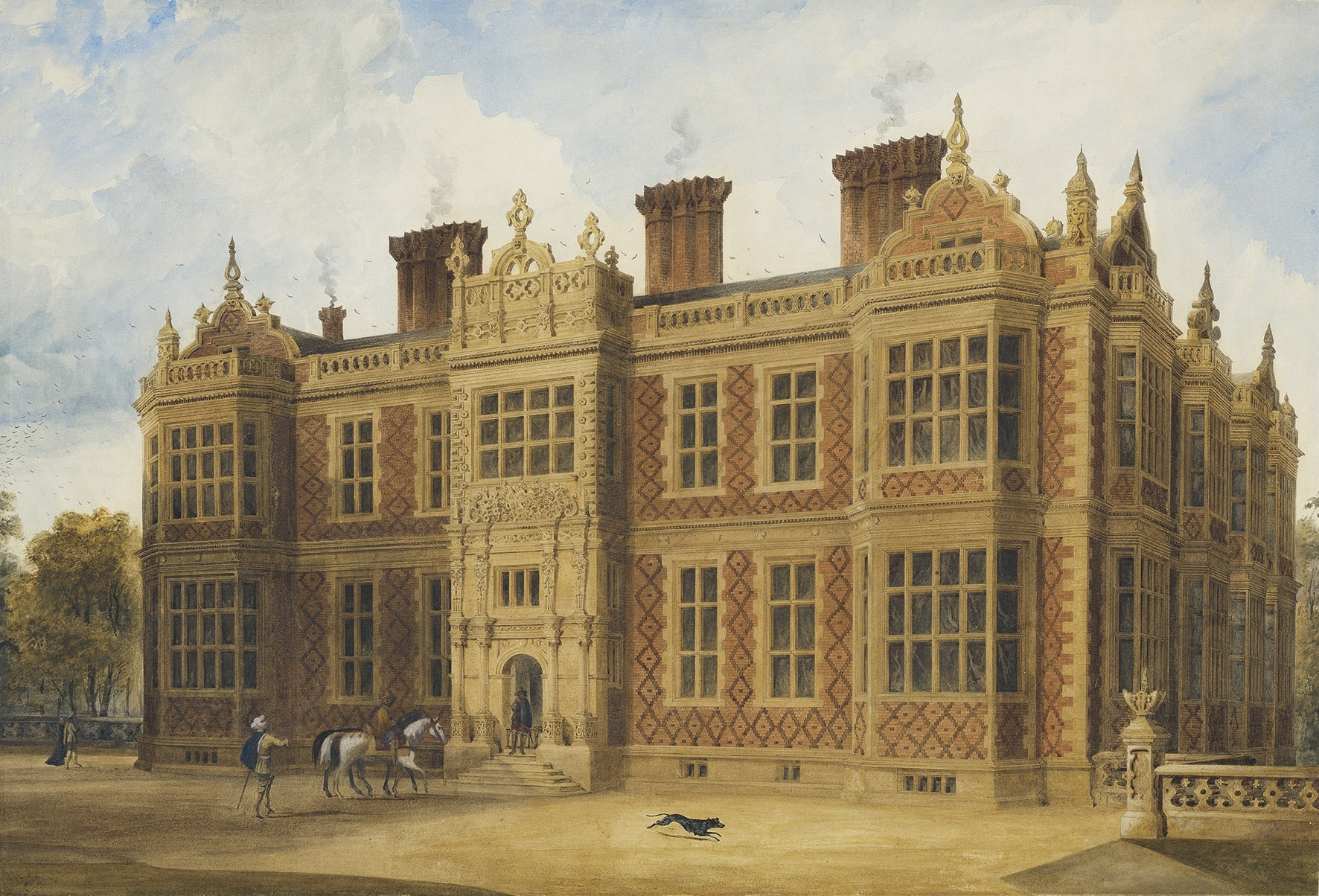 Watercolour of Crewe Hall, Cheshire, England.